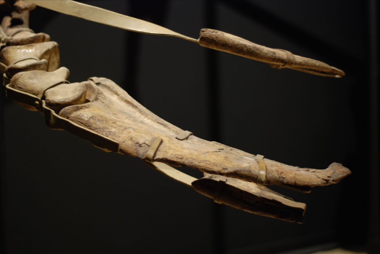 Therizinosaurus Cheloniformis Saurishcia, Teropoda, Therizinosauria. Cretacico superior, piso Nemegtian 72 millones Años Late Cretaceous, Nemegtian age, 72 million years Keerman Tsav, Gobi, Mongolia